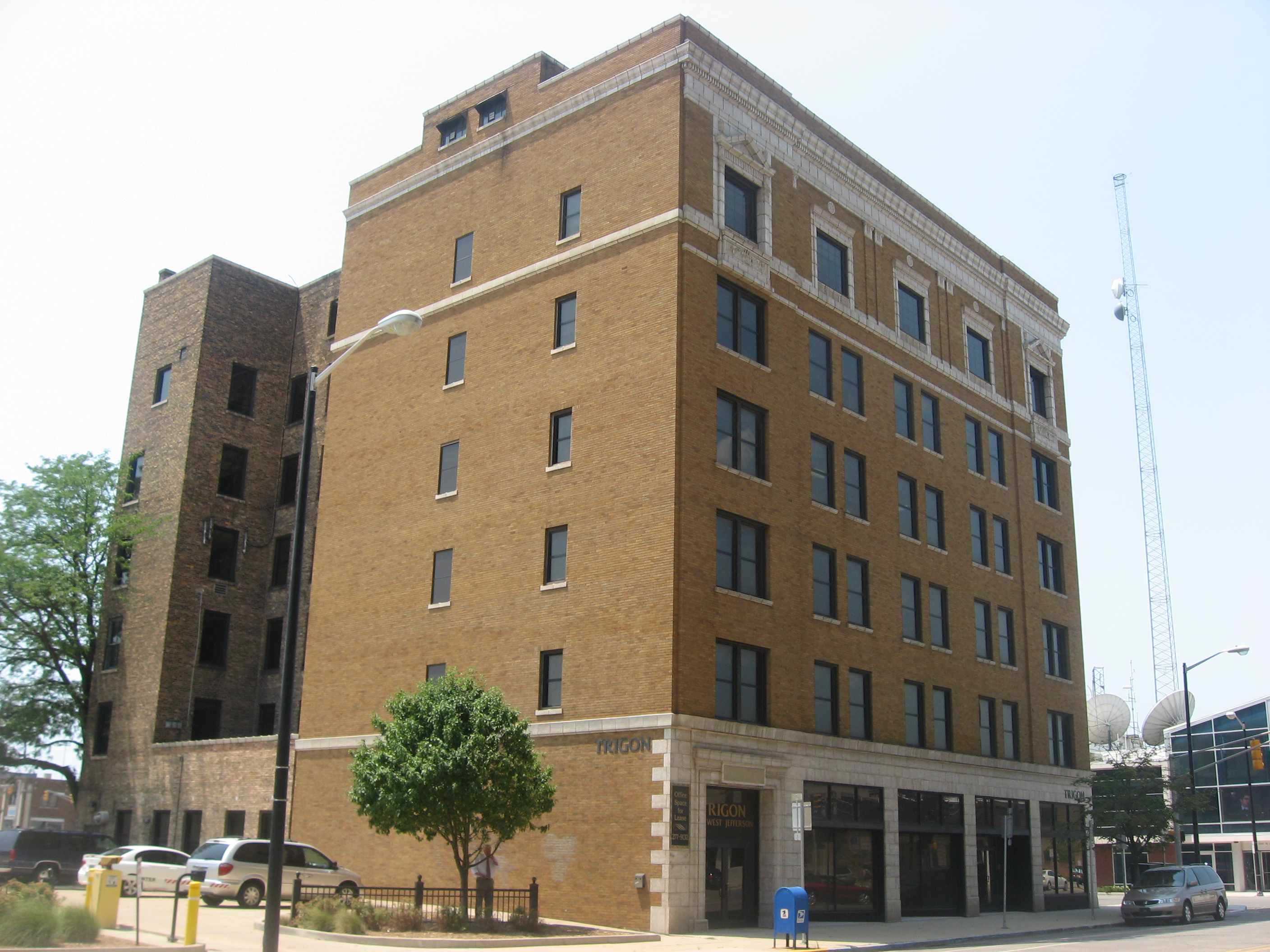 Front and eastern side of the Knights of Pythias Lodge, located at 224 W. Jefferson Boulevard in South Bend, Indiana, United States. Built in 1922, it is listed on the National Register of Historic Places.